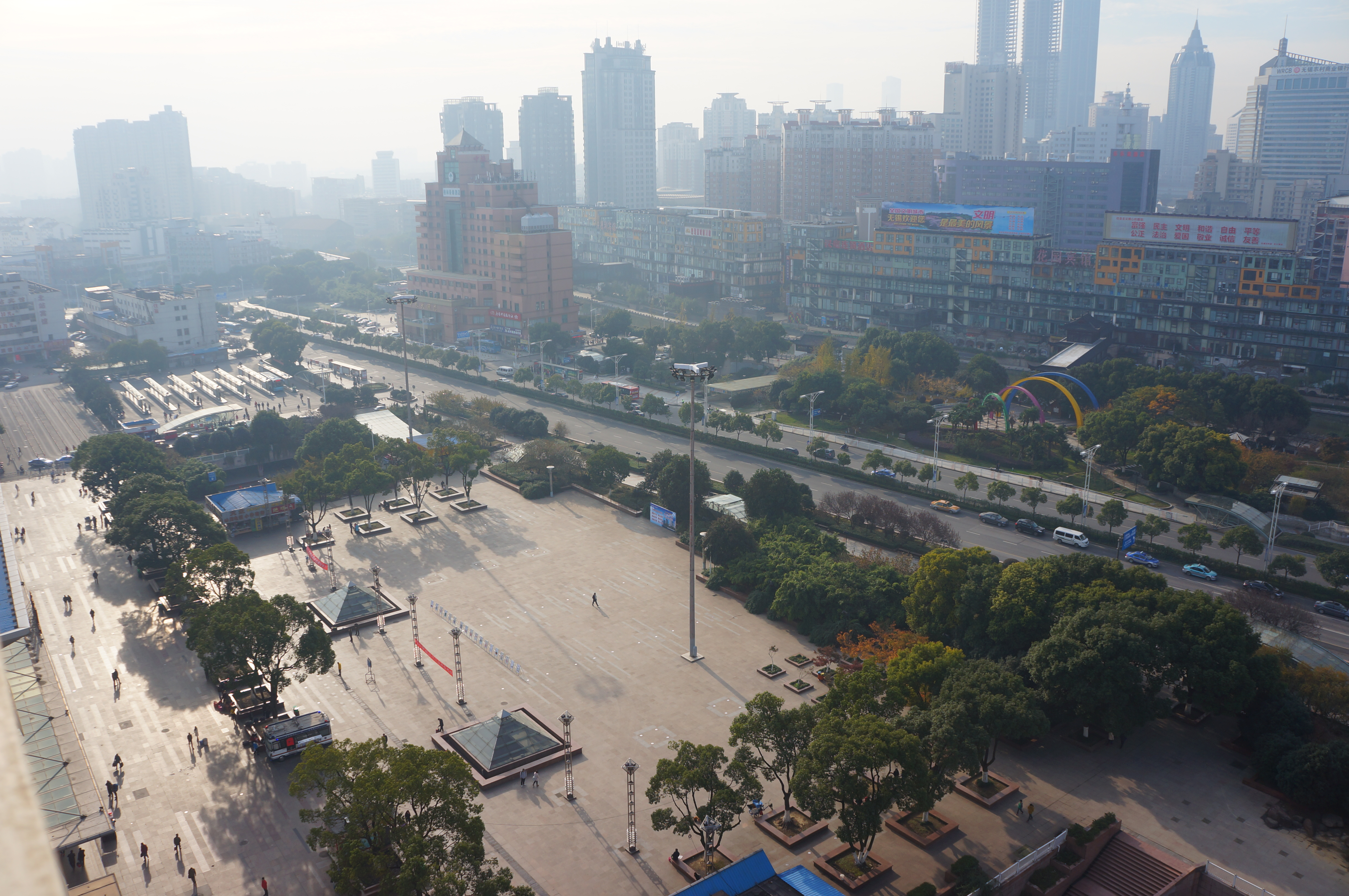 Wuxi Railway Station Southern Square